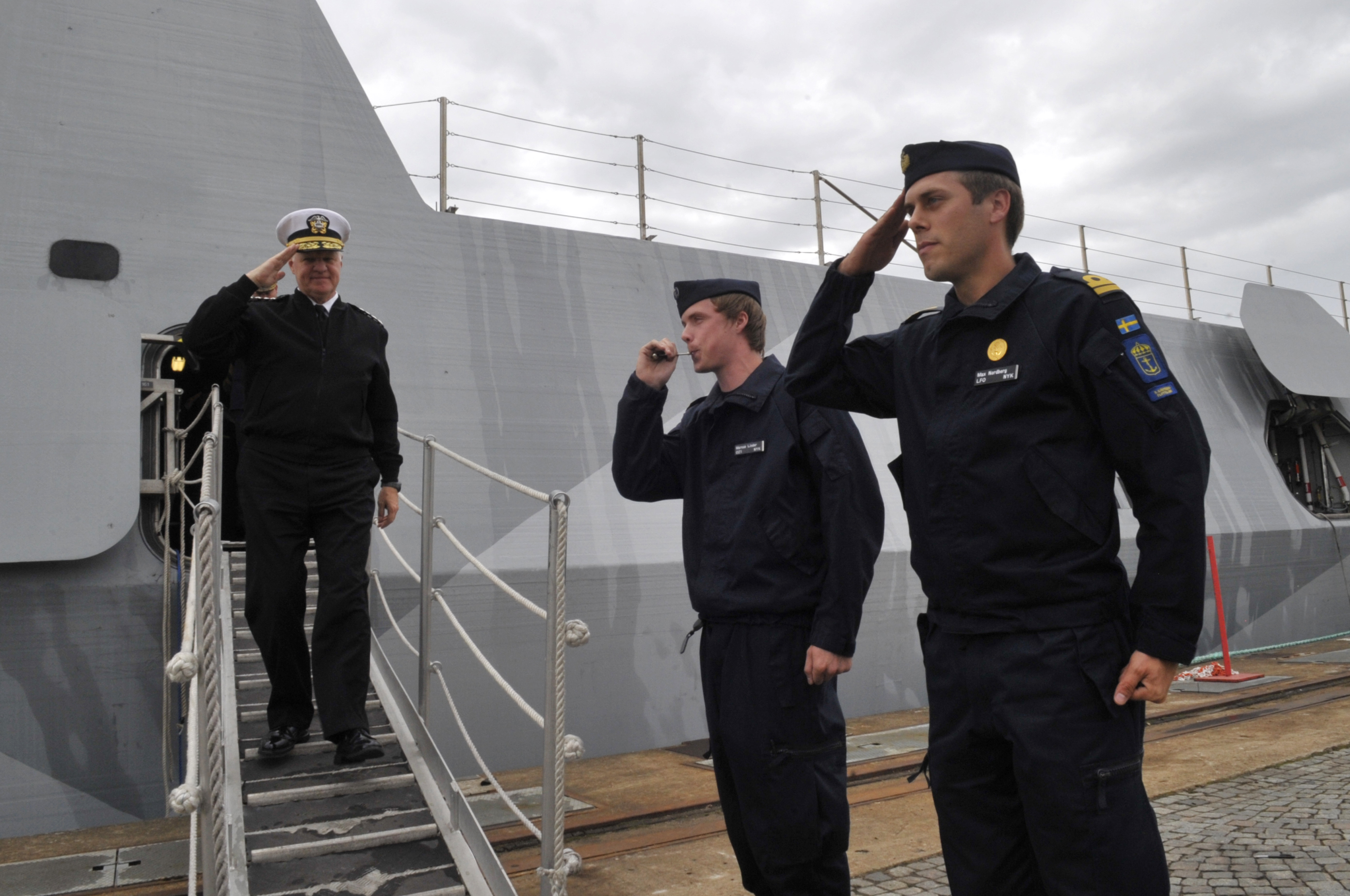 KARLSKRONA, Sweden (Aug. 19, 2010) Returning to Naval Base Karlskrona Naval Base, Chief of Naval Operations (CNO) Adm. Gary Roughead is piped ashore after getting underway with the Visby Corvette HSwMS NYKÖPING. (U.S. Navy photo by Mass Communication Specialist 1st Class Tiffini Jones Vanderwyst/Released)